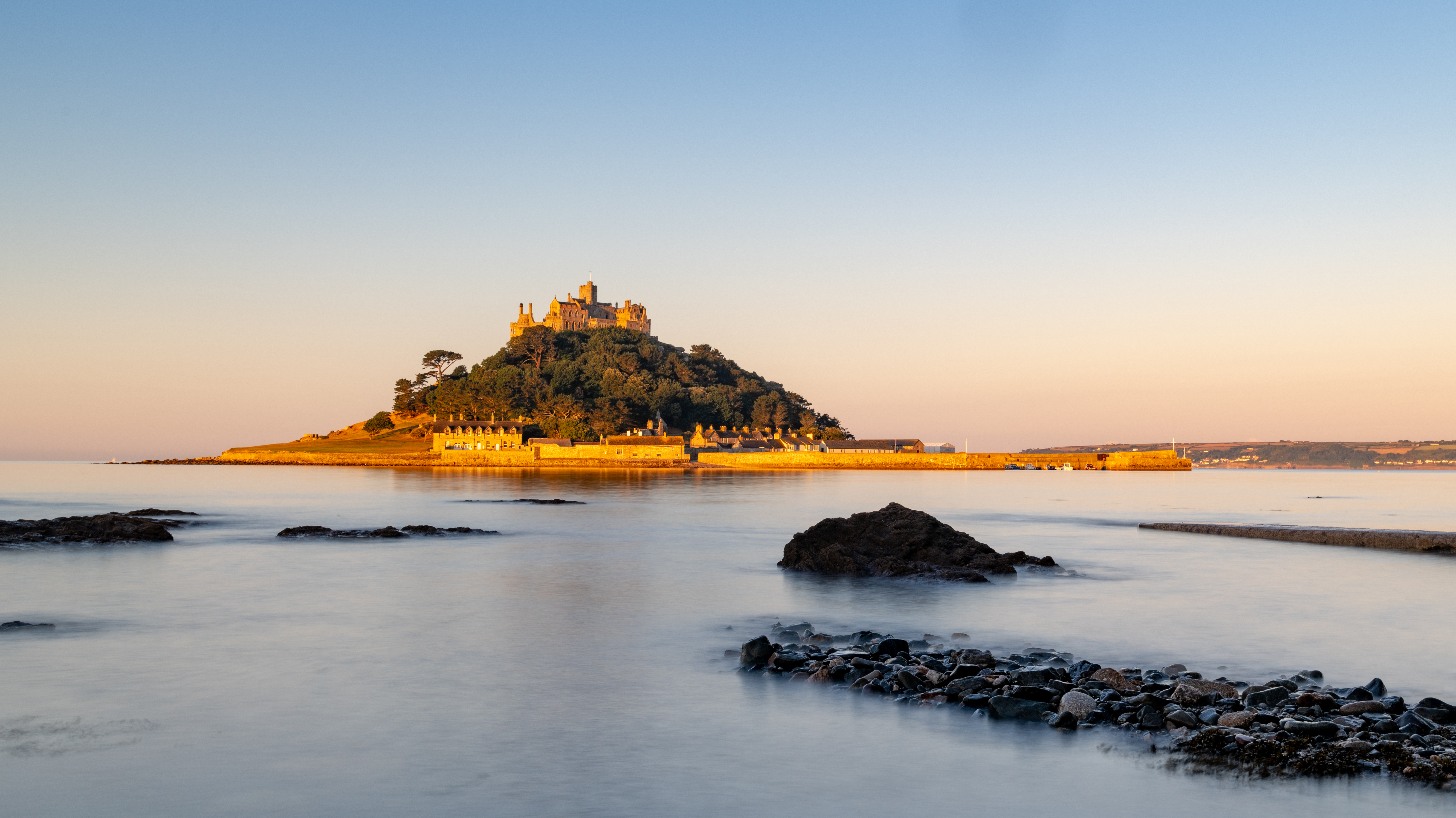 St. Michael's Mount in morning sunset